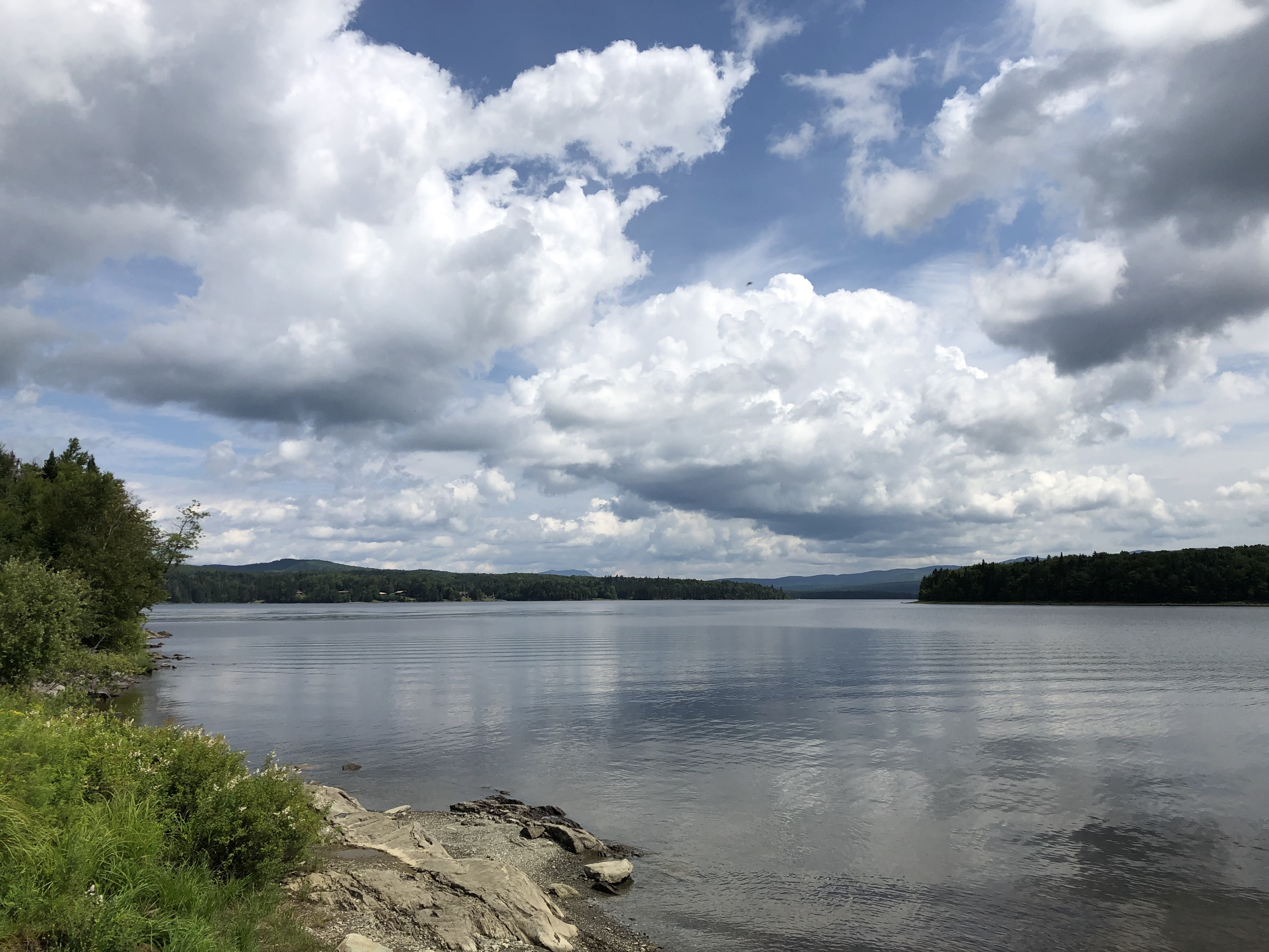 Looking north across a section of the First Connecticut Lake in Pittsburg, New Hampshire, in August 2019.